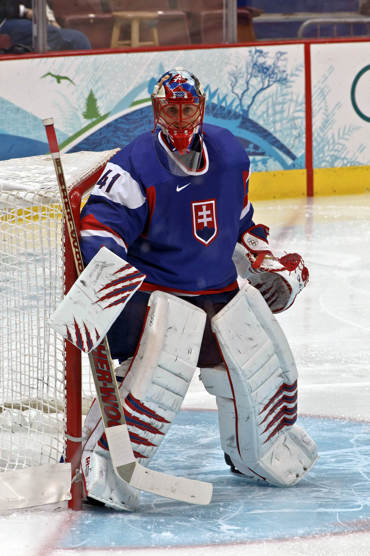 Slovakia goaltender Jaroslav Halák watches the action against Sweden during the 2010 Winter Olympics